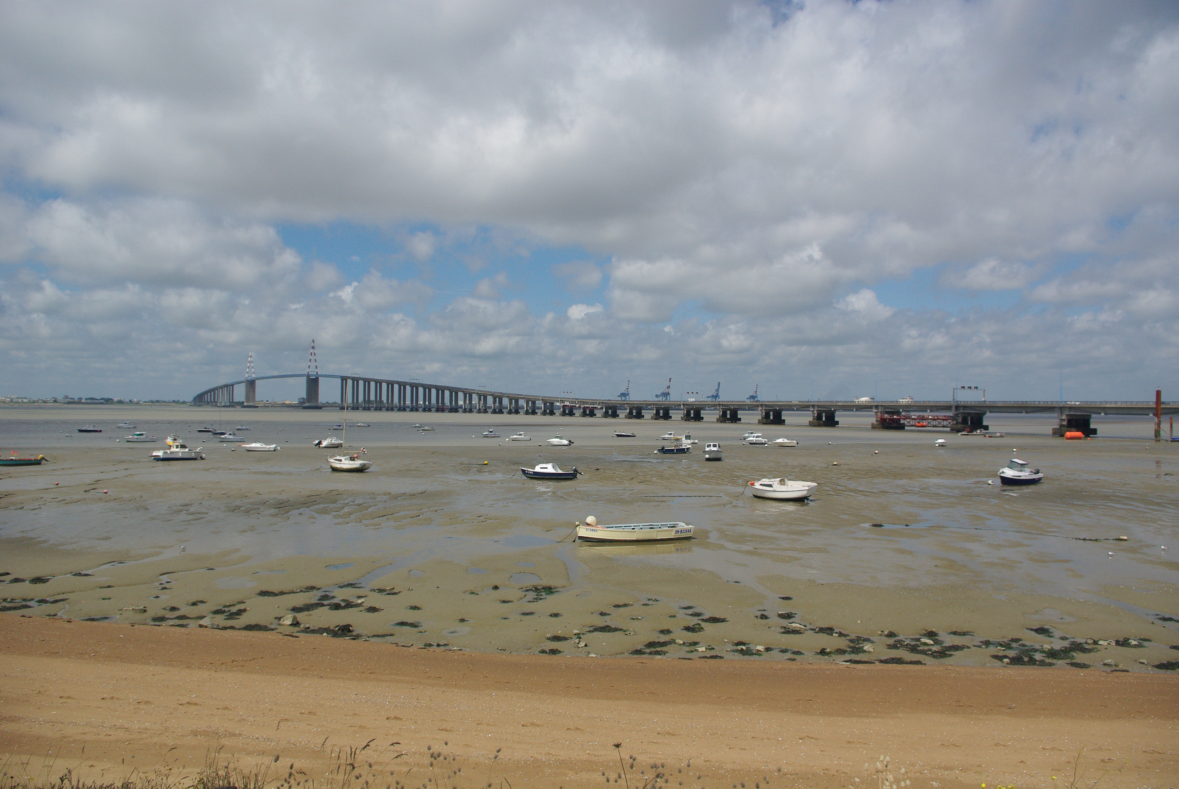 Mindin harbor, with the Saint-Nazaire bridge in the background